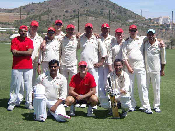 Madrid Cricket Club 2007